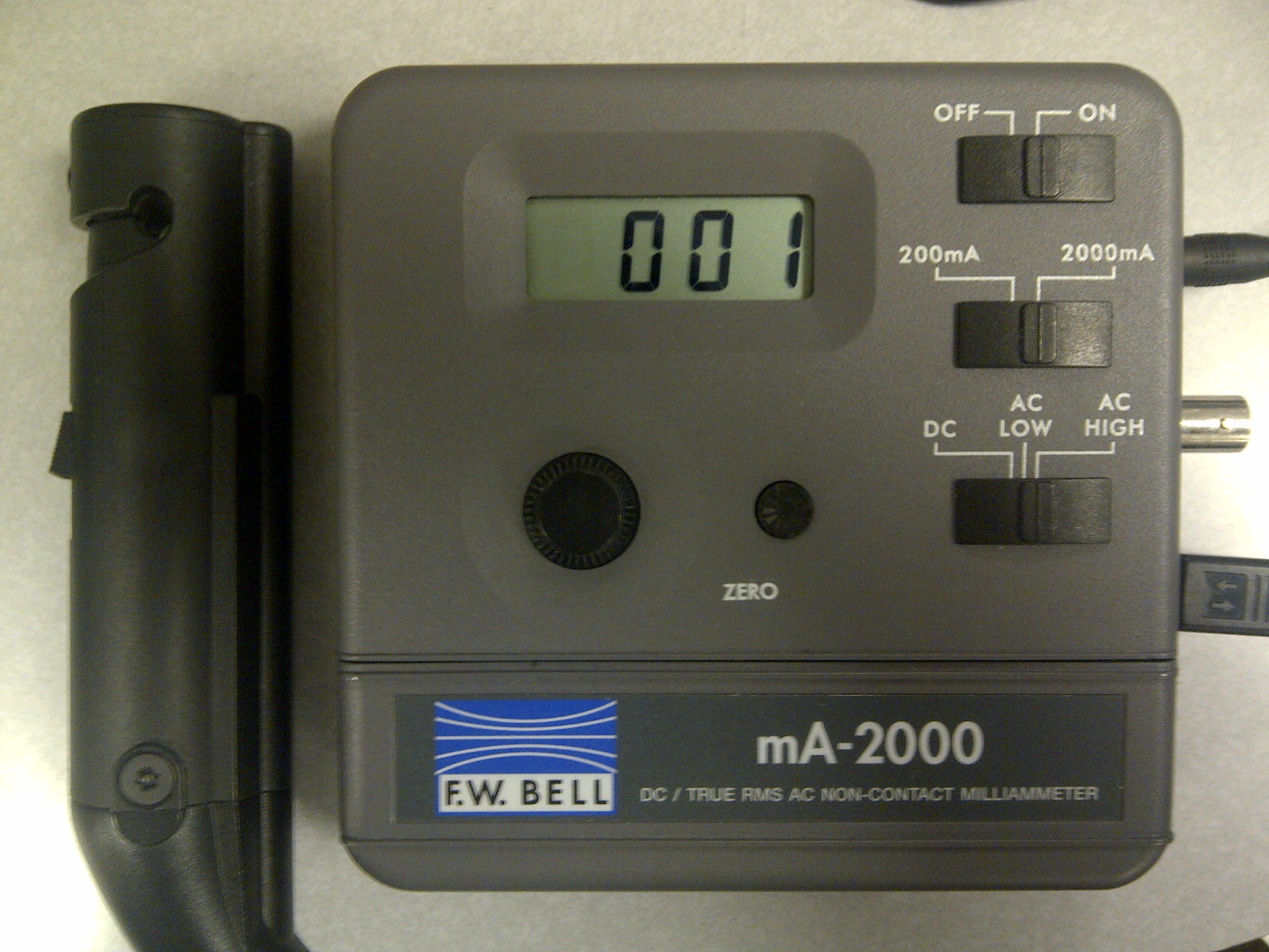 F.W. BELL Non-contact Milliammeter